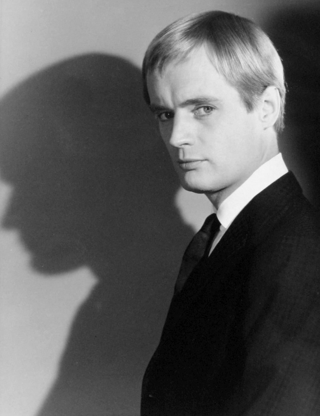 Photo of David McCallum from the television show The Man from U.N.C.L.E..